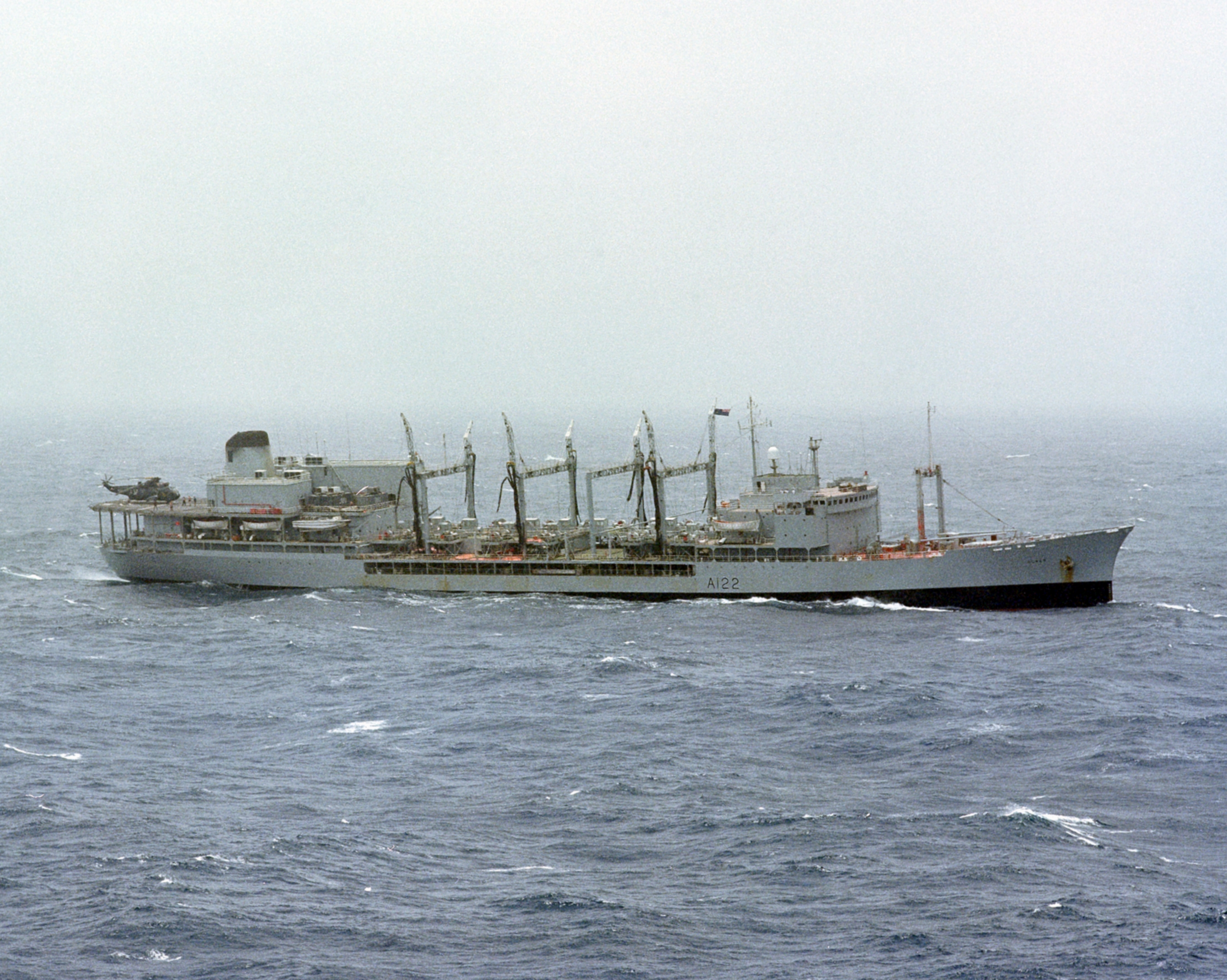 The British large fleet tanker RFA Olwen (A122) underway.